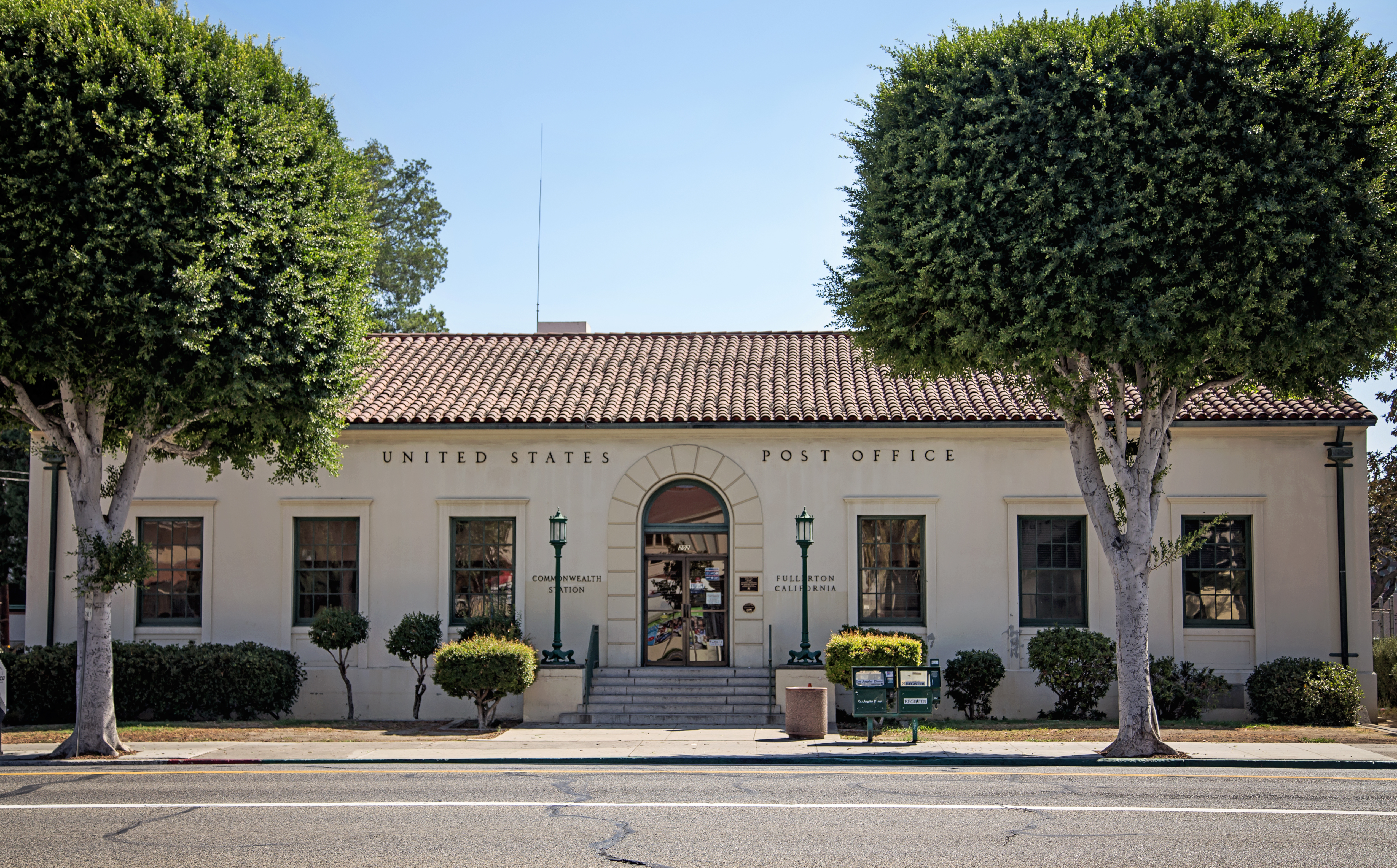 The front of Fullerton Post Office in Fullerton, CA